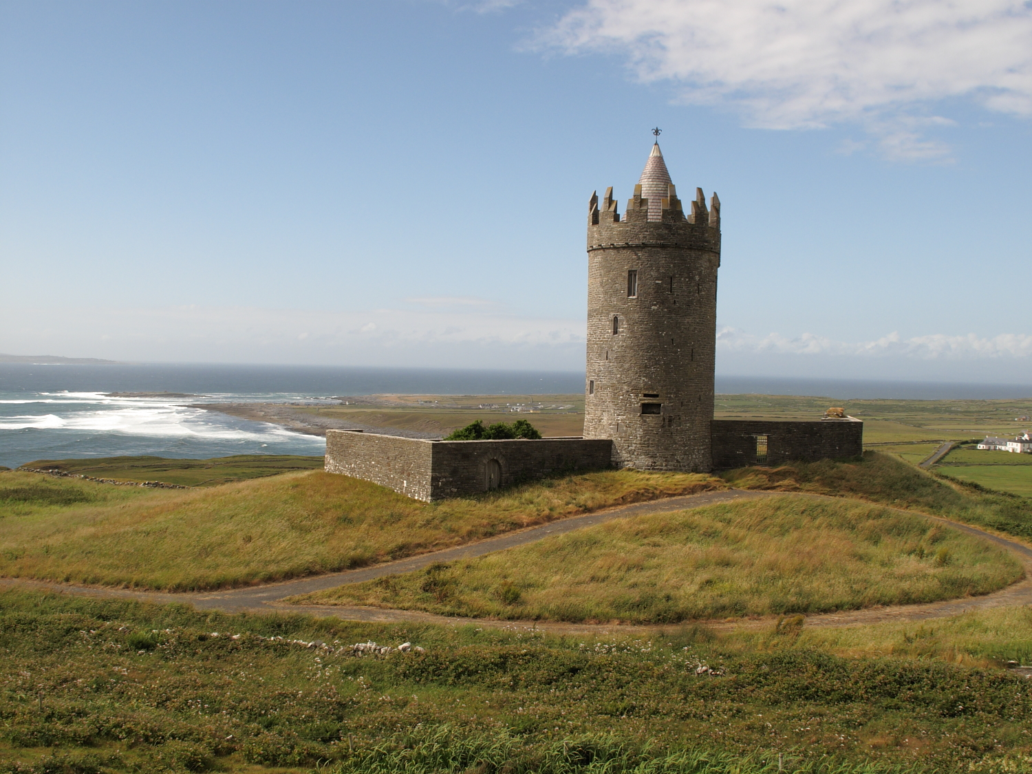 Doolin - Doonagore Castle